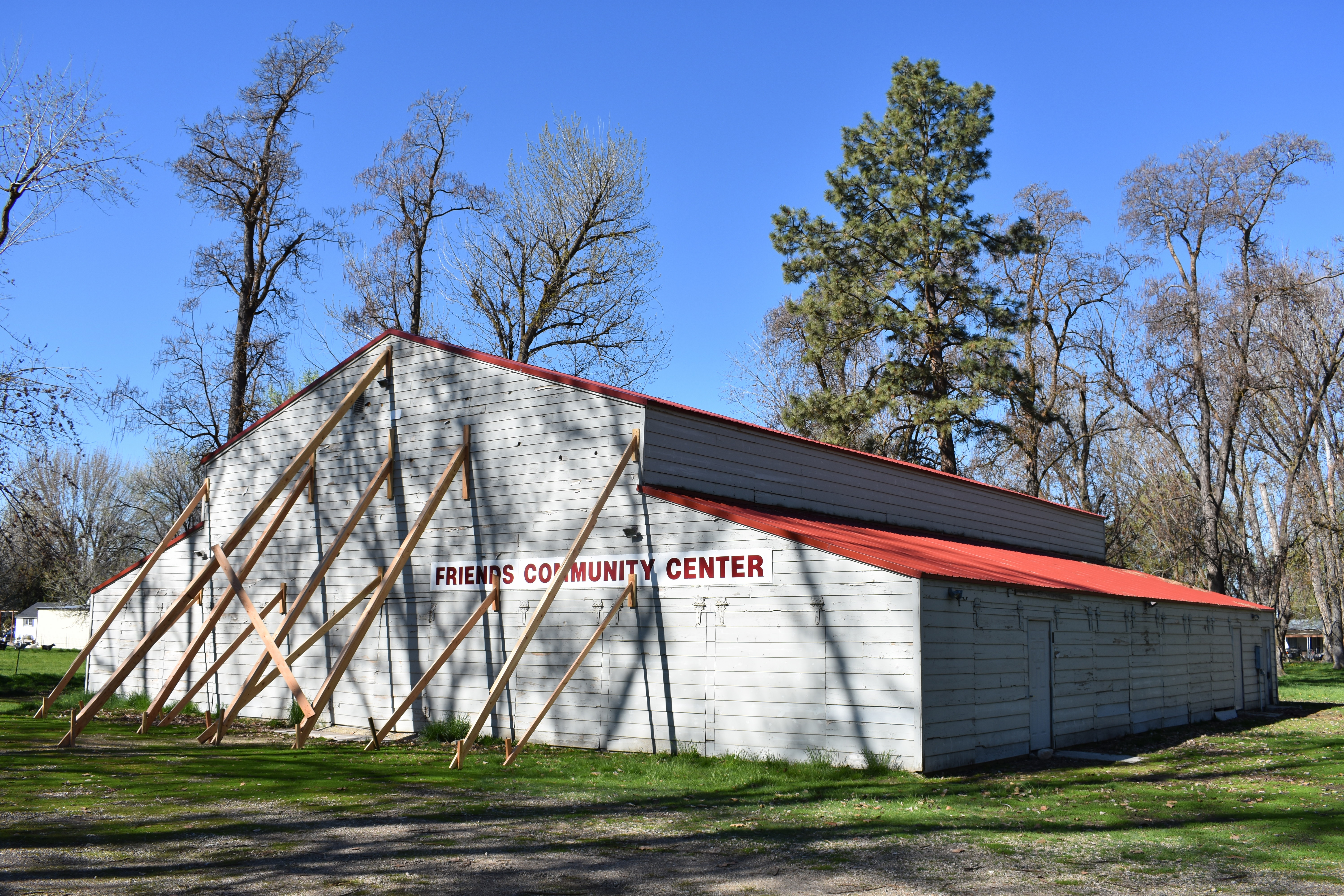 Star Camp, a Friends Church resource, was established in 1941 in Star, Idaho. The present structure dates from 1949, and the site is listed on the National Register of Historic Places.